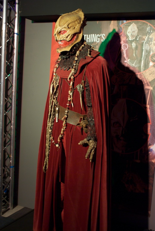 Sycorax Doctor Who Experience